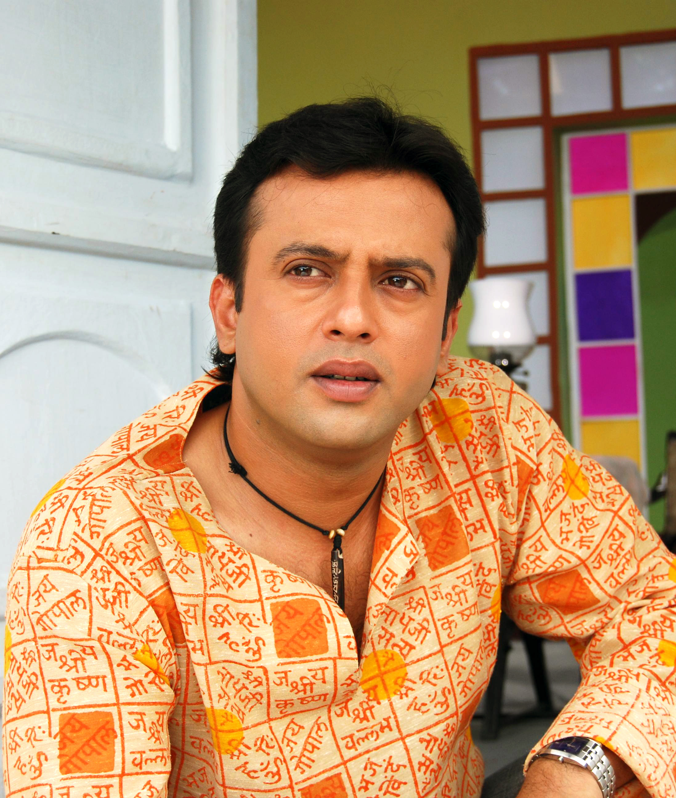 Riaz in the set of 'Akash Chhoa Bhalobasa' 2007